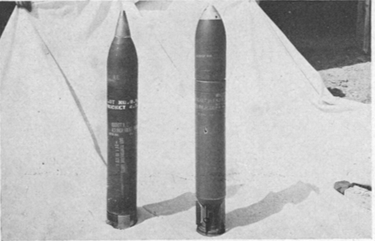 M8 (right) and M16 (left) rockets